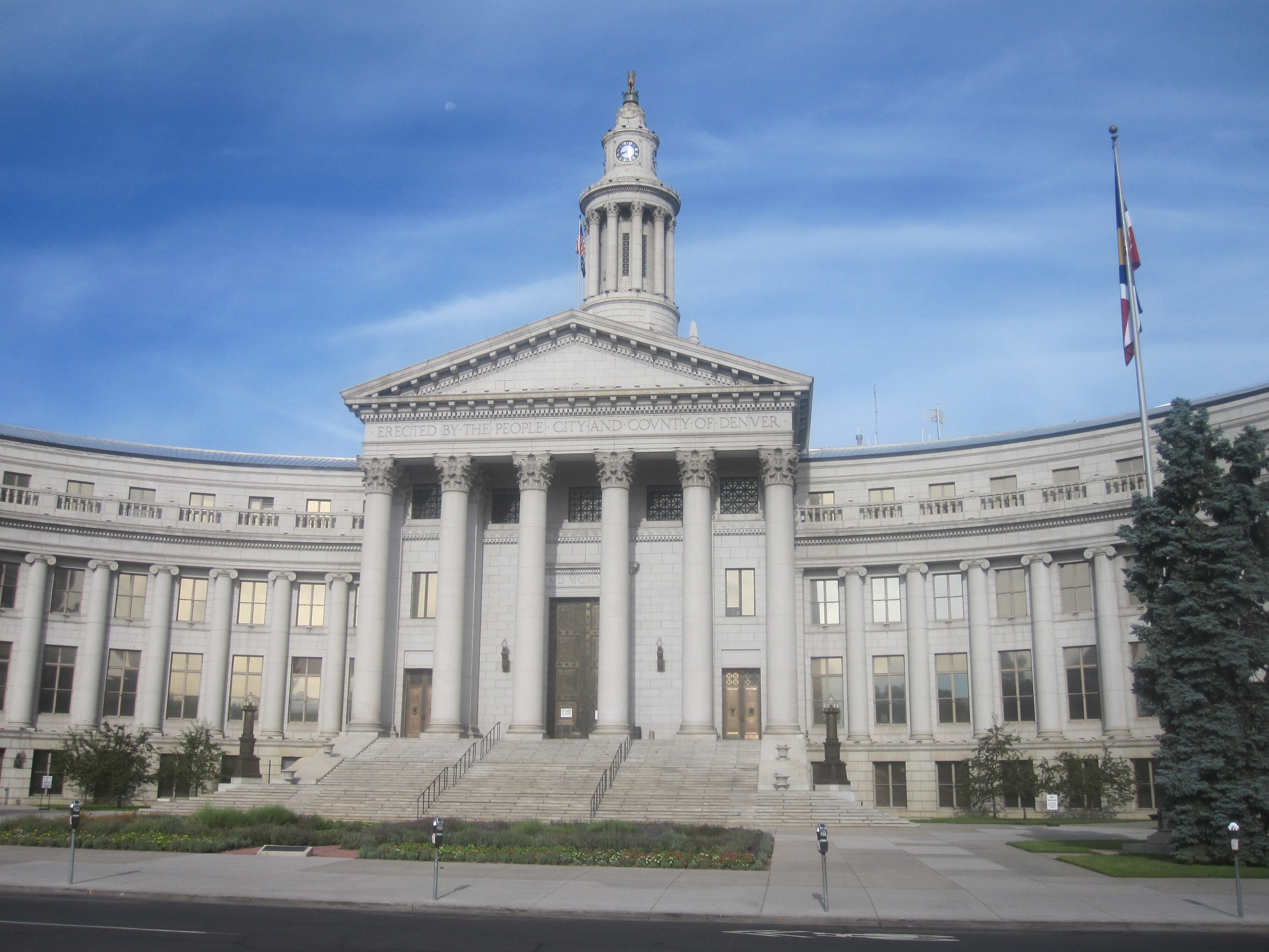 Denver City and County Building — in Denver, Colorado. I took photo with Canon camera in Denver, CO.